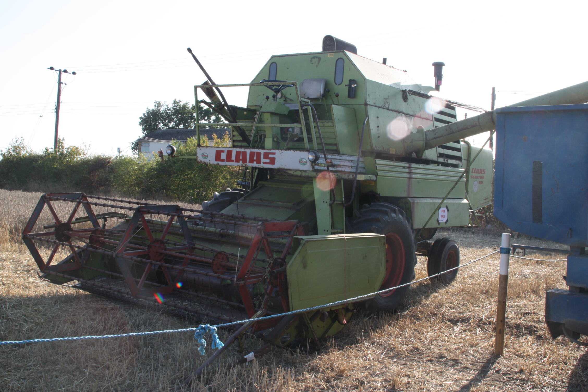 Claas Senator 80 combine harvester (STW 512M) at Essex Country Show 2009, UK, in the working area.